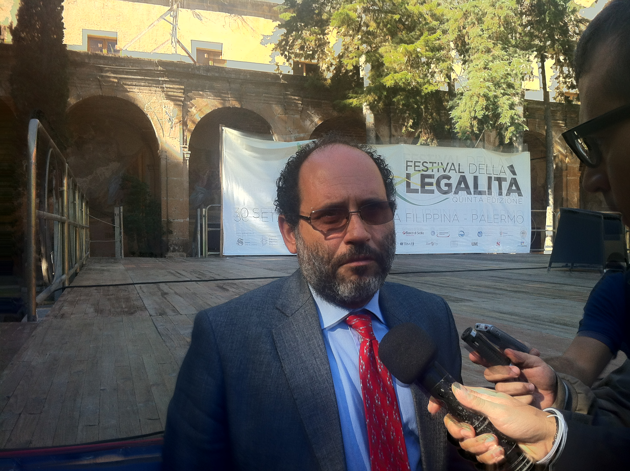 The Italian prosecutor Antonio Ingroia